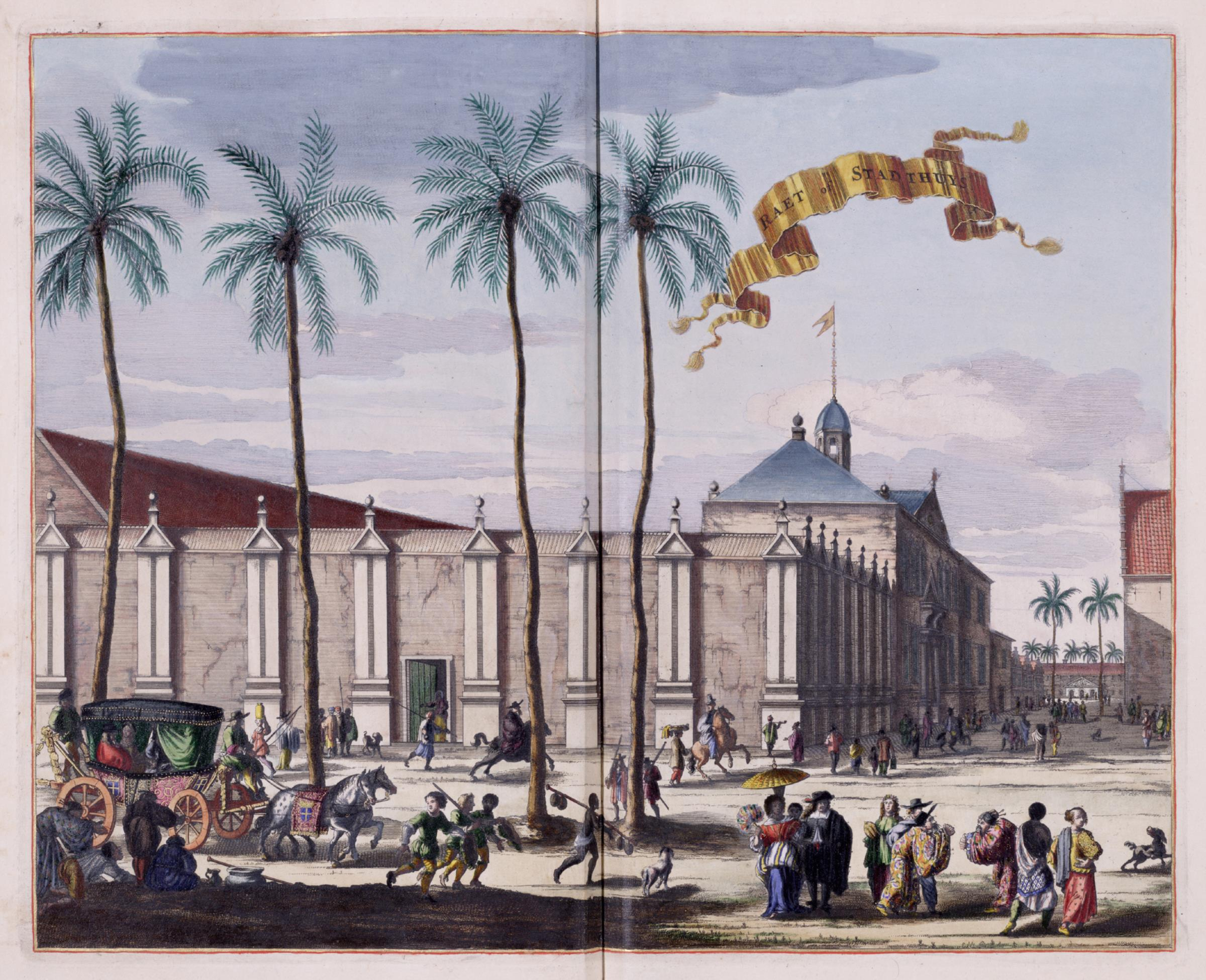 The city hall on Batavia. A high wall with pilasters is depicted face on. Top left: 200. Cf. Westfries Museum, inv. nr. 15241.04. The prints in the Atlas Van Stolk and Koninklijke Bibliotheek, 388 A 9 part II, after p. 200, 2 are in black and white, while the print from the Koninklijke Bibliotheek (Atlas van der Hagen, Koninklijke Bibliotheek, The Hague Part 4) has been coloured in.